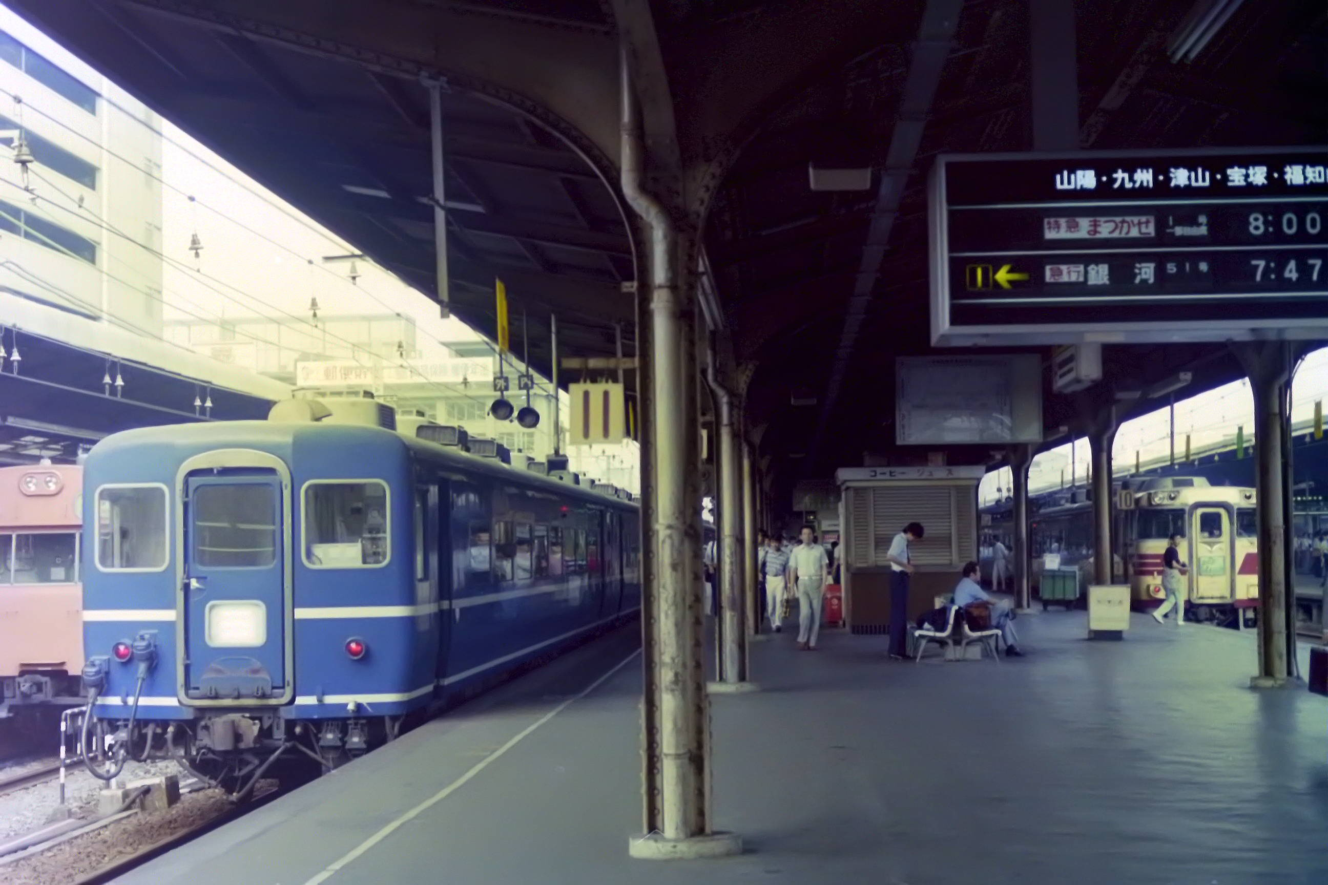 An additional Ginga No. 51 express service at Osaka Station